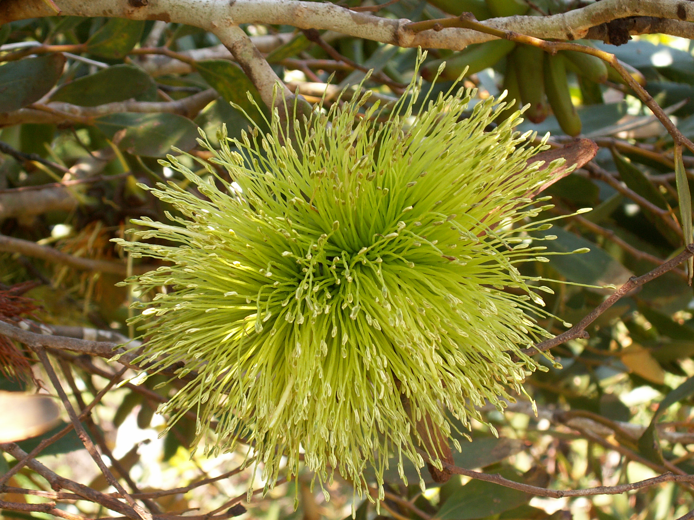 near Albany, Western Australia